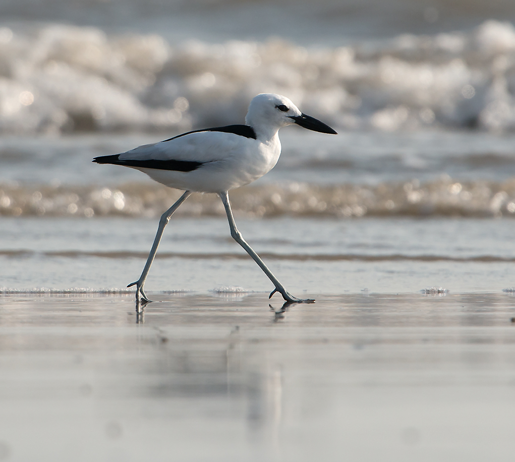 Crab Plover (Dromas ardeola) on Mandvi Beach, Gujarat.